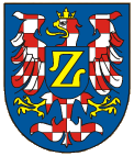 Znojmo CoA CZ